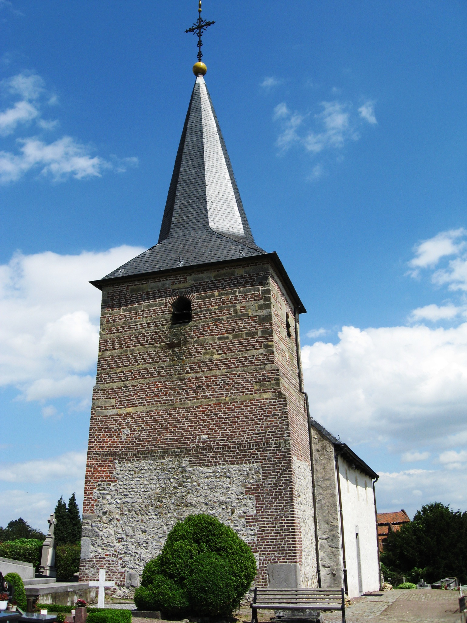 Church of Saint Servatius in Groot-Loon, Borgloon, Limburg, Belgium